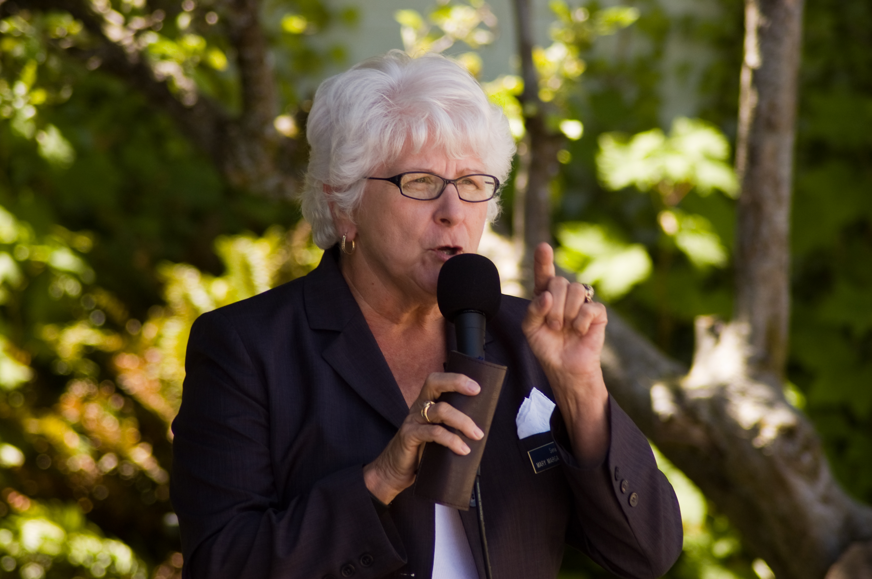 Senator Mary Margaret Haugen (D-Camano Island) speaks before introducing Governor Christine Gregoire at a 2008 campaign rally in Langley, WA.